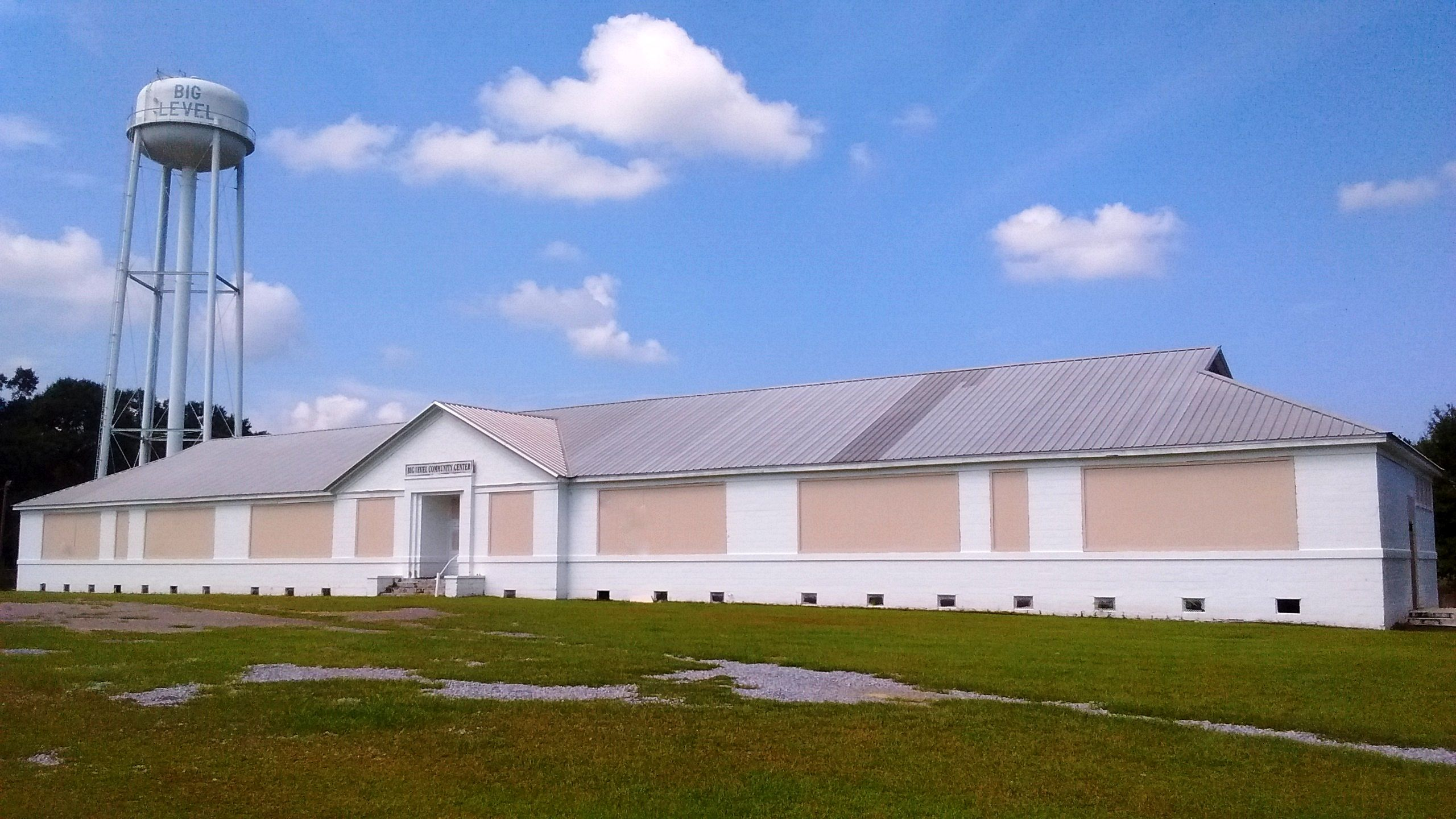 Old Big Level School building located on City Bridge Road, Stone County, Mississippi, USA.